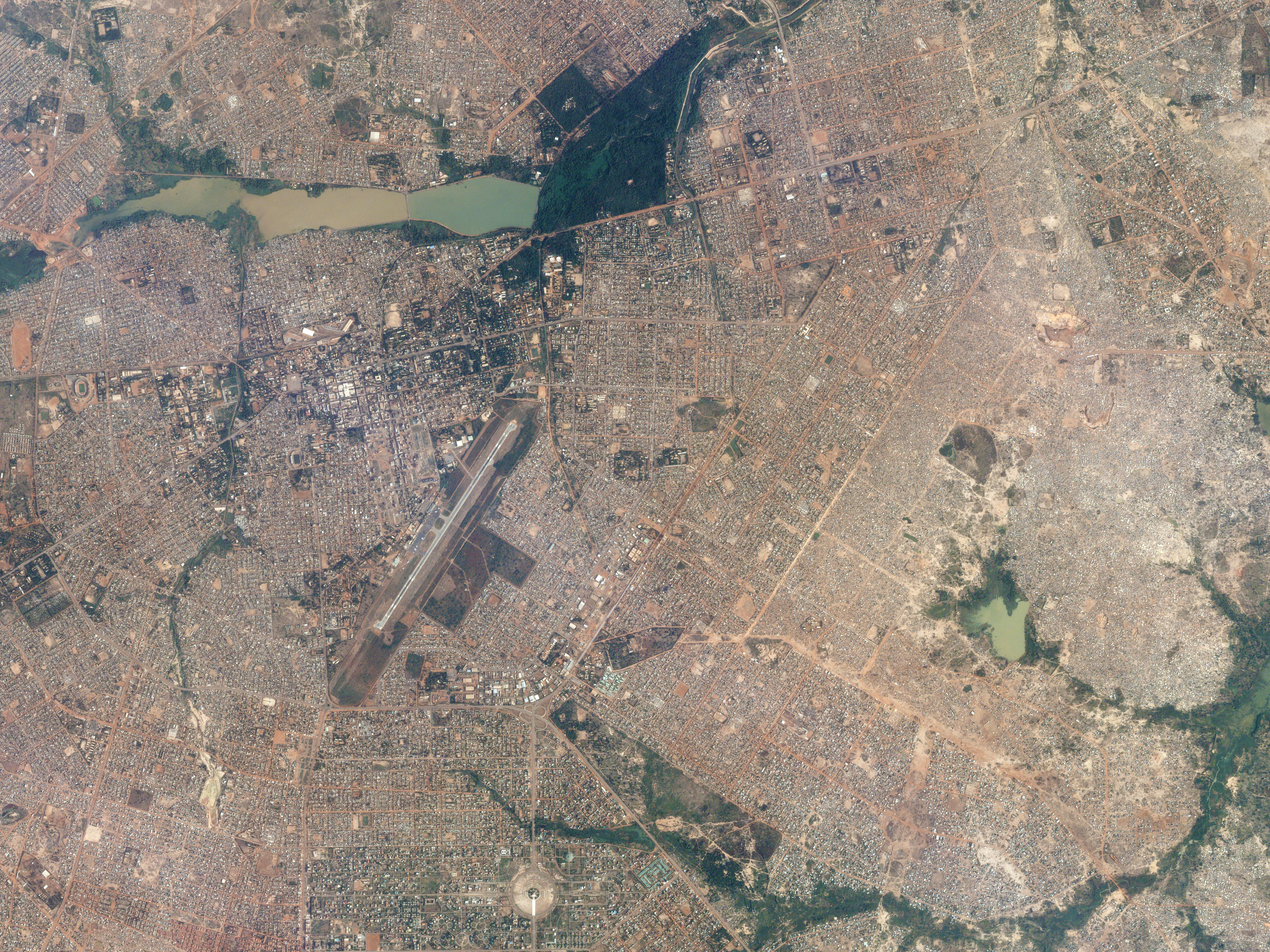 Ouagadougou, Burkina Faso October 23, 2016 Capital of Burkina Faso, Ouagadougou is a lively music and arts hub for its 1.6 million residents.